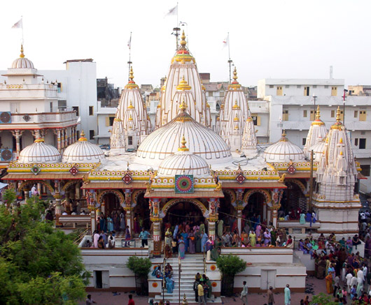 Shree Swaminarayan Sampraday, Ahmedabad Please visit website for more information on the Swaminarayan Temple.